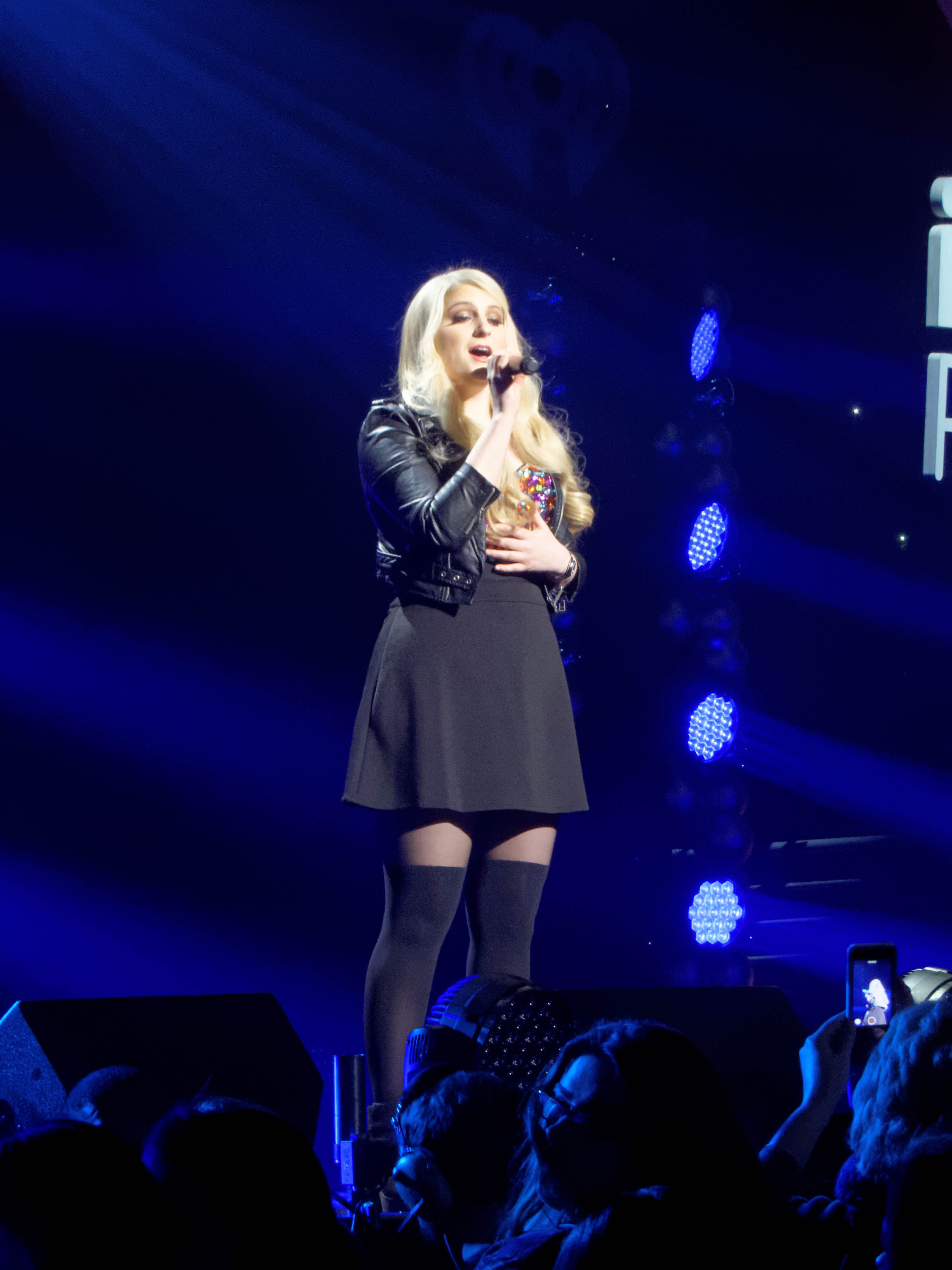 Q102 Philly Jingle Ball 2014